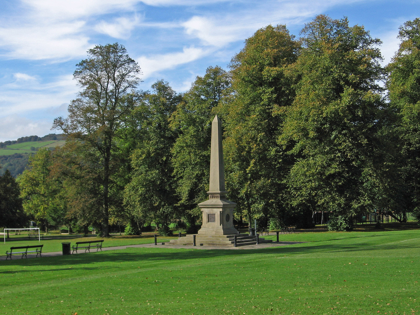 Darley Dale - monument in Whitworth Park